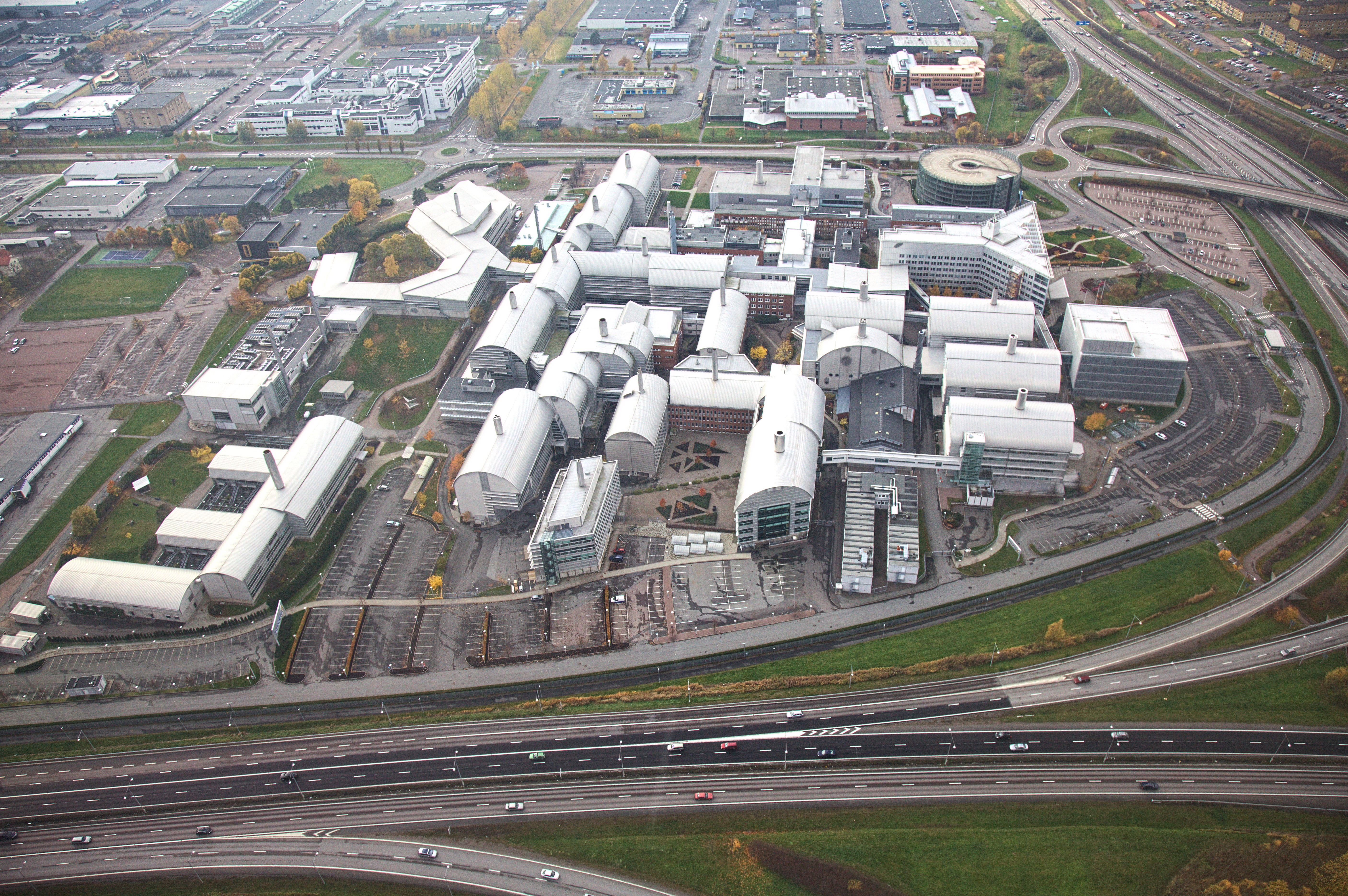 Photo taken on a helicopter over Gothenburg